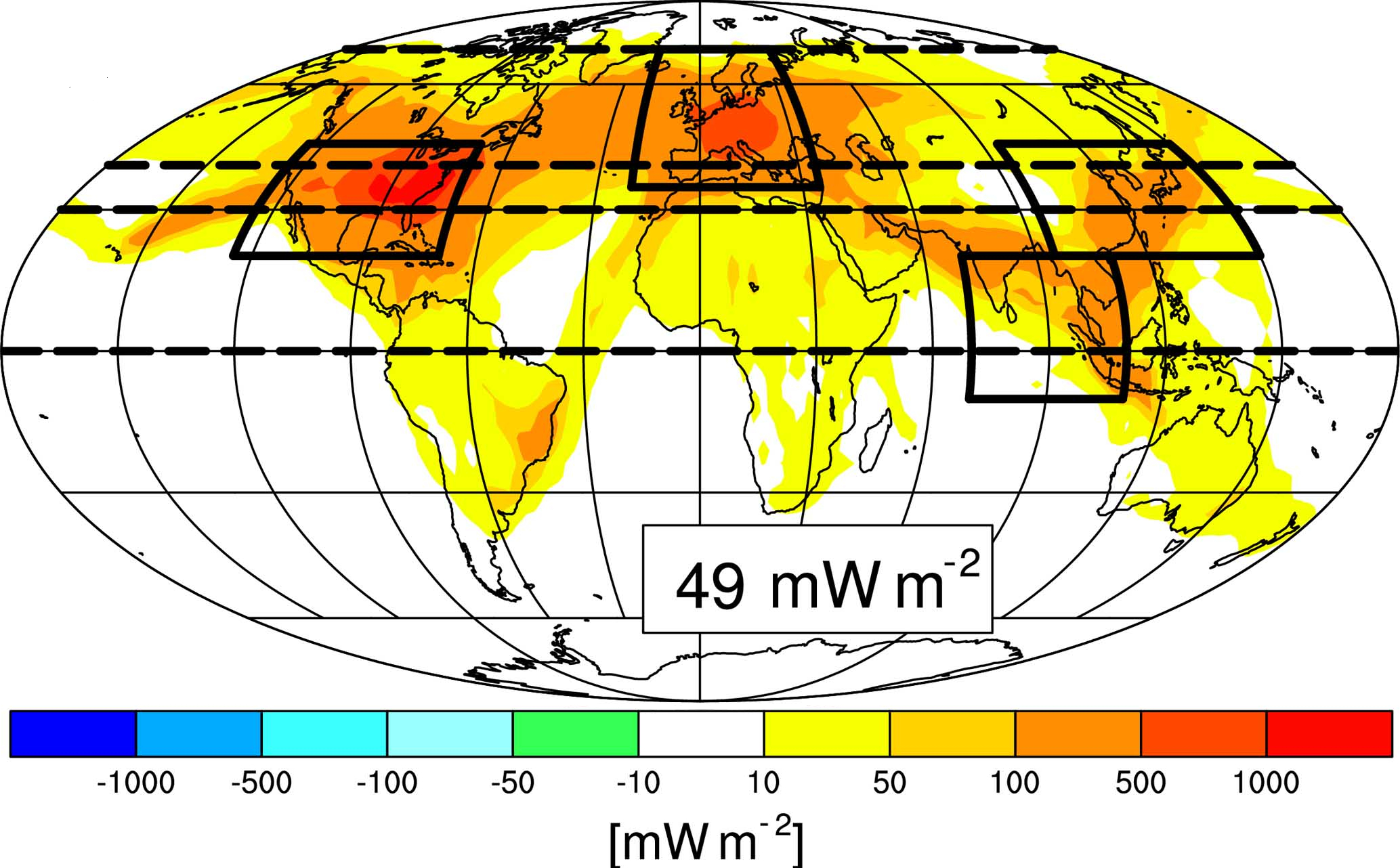 Radiative forcing of airtraffic induced contrail cirrus 2006, according to simulation C2006 T06 (ground projected distance) in Bock and Burkhard (2019): Contrail cirrus radiative forcing for future air traffic. Atmos. Chem. Phys., 19, 8163–8174, 2019 ([1]).